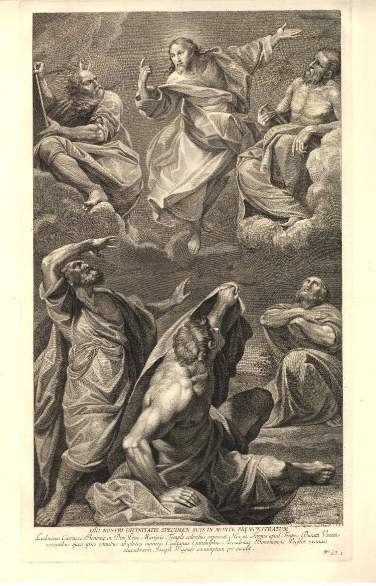 The Transfiguration, with Christ in the heavens disputing with Moses and Elias and the three Apostles below; after the painting by Ludovico Carracci in S.Pietro Martire in Bologna Engraving